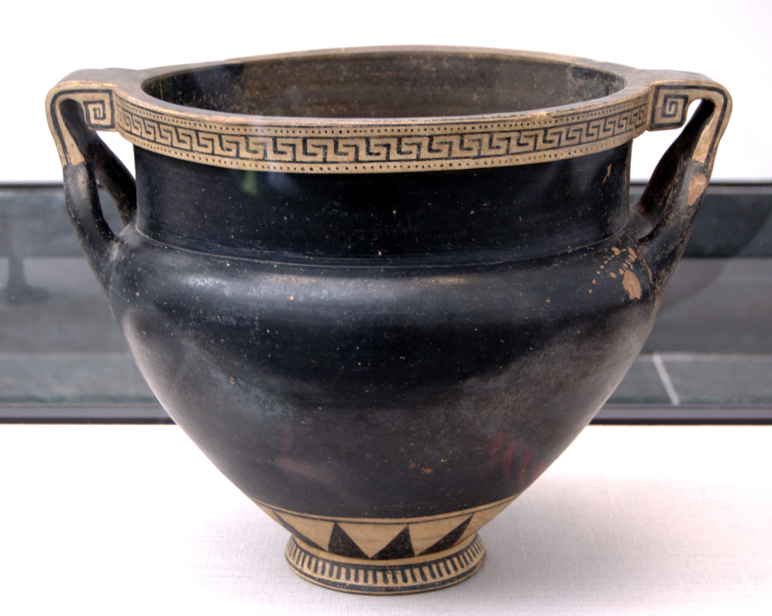 Laconian black-figure krater, 590–550 BC.